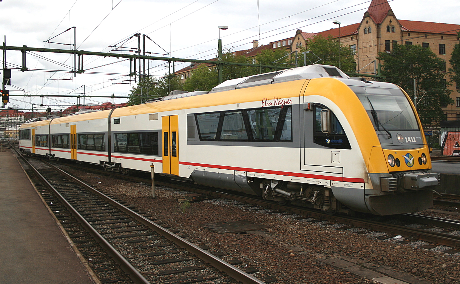 Bombardier Itino Y32